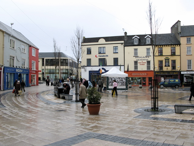 The Square, Tralee, Co. Kerry, Ireland A wet Friday morning